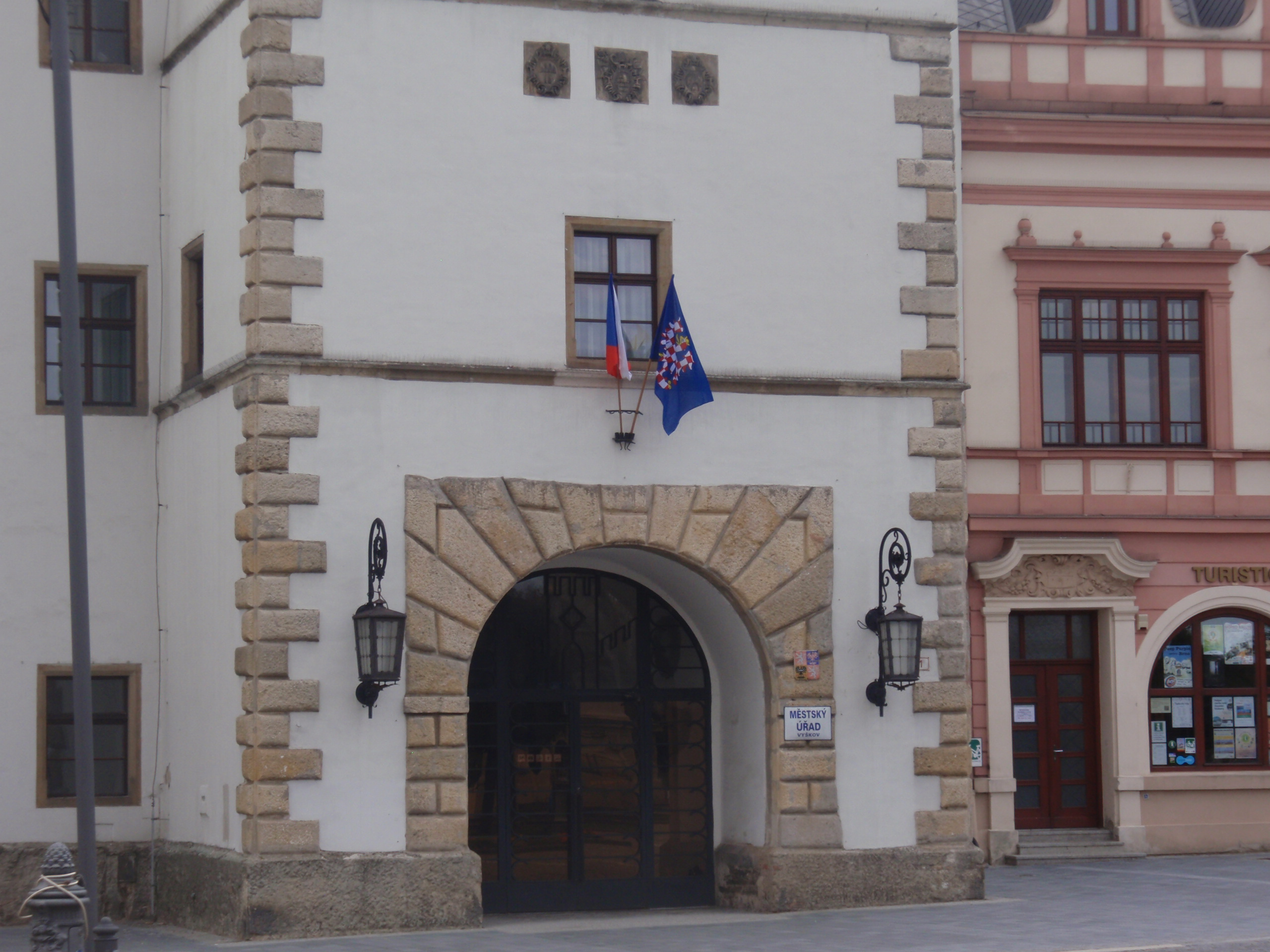 The flag of Moravia on town hall in Vyškov